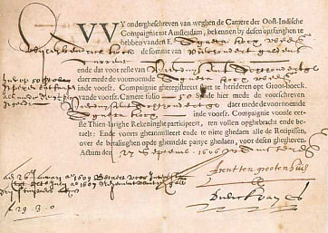 Old share (not bond) of the Dutch VOC (East India Company)